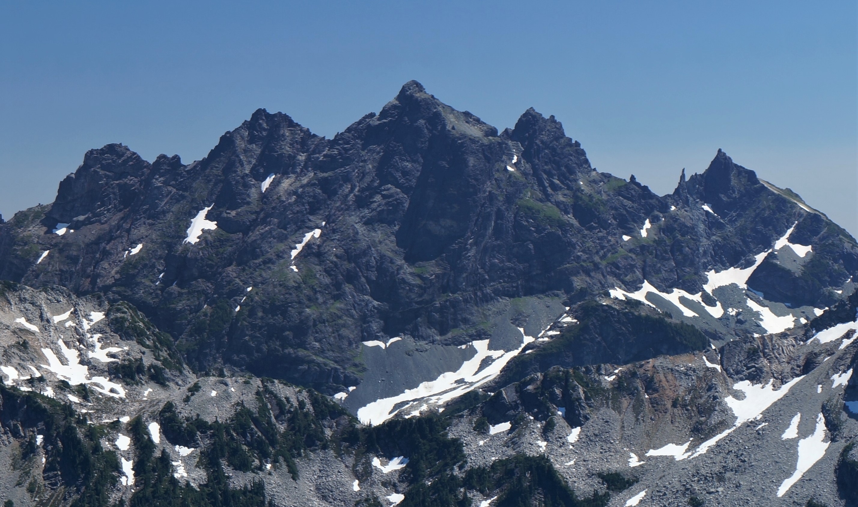 Big Snow Mountain summit view of Lemah Mountain